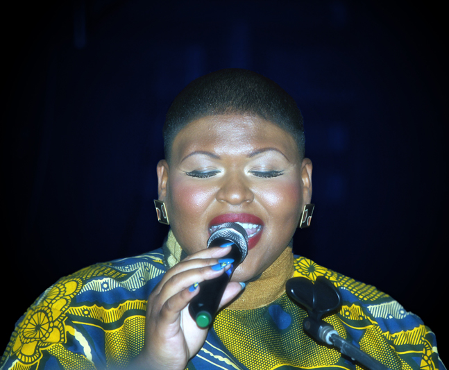 Stacy Barthe @ the Infusion Lounge - Original description: (Charles Thompson